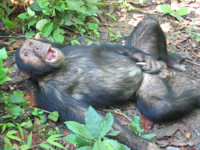 Frequent abuser